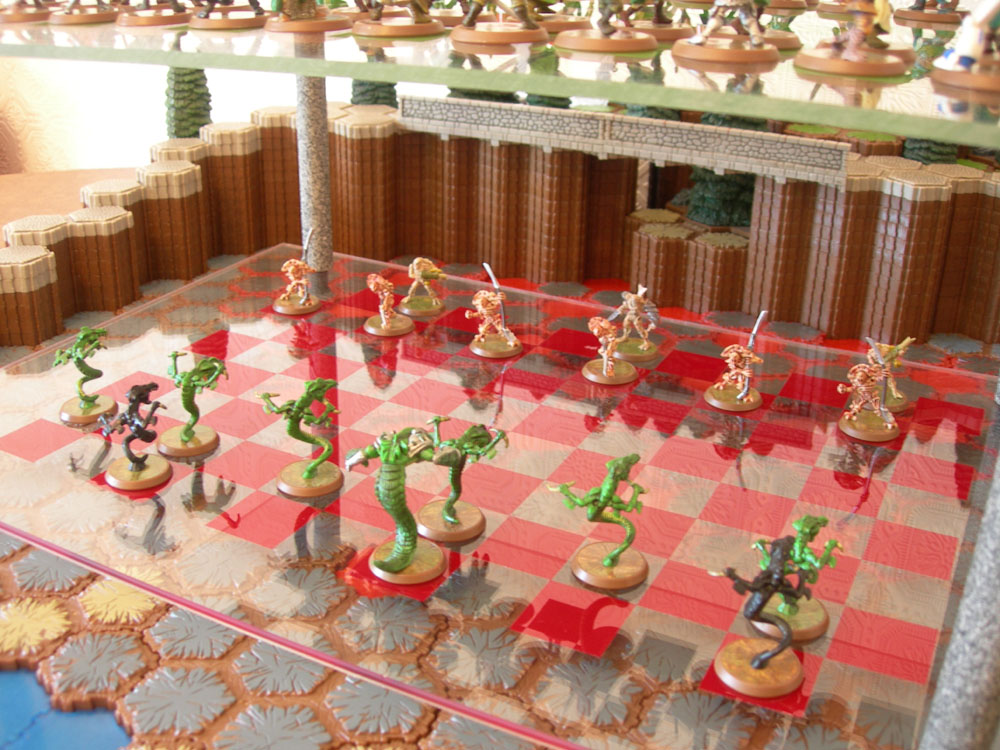 Dragonchess lower board - user set & pic